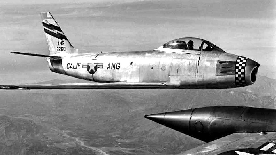 115th Fighter-Interceptor Squadron North American F-86A-5-NA Sabre 48-260 Aircraft was in storage at the Paul Garber restoration facility, MD. Noted Dec 2005 on display at Udvar-Hazy Center of NASM, Chantilly, VA